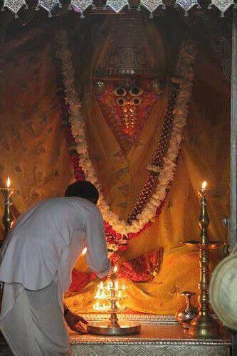 DeshdeviAshapura